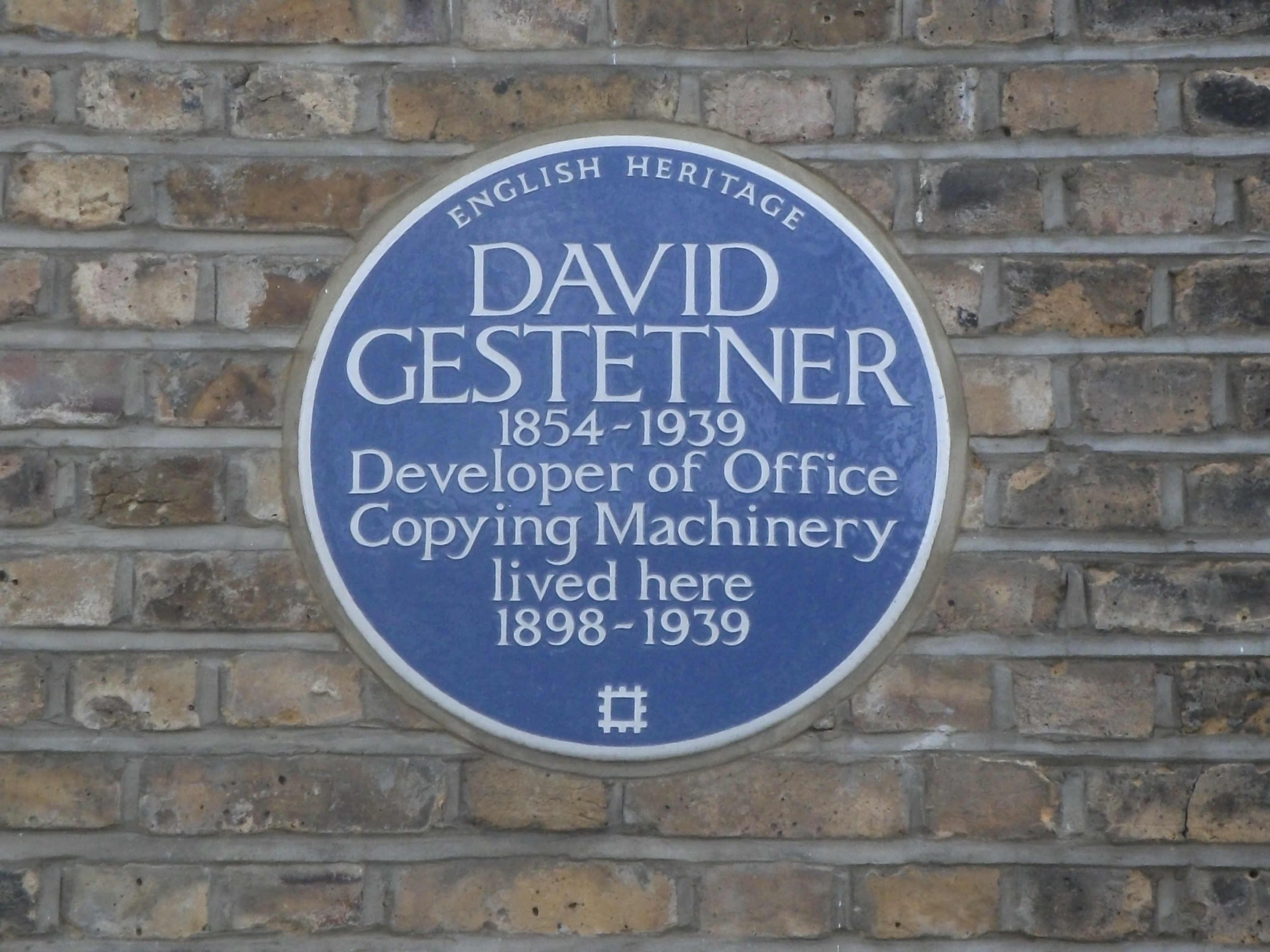 David Gestetner blue plaque in London